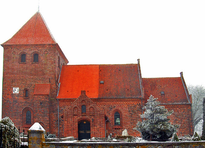 Tågerup Church, from the south, on the Danish island of Lolland. Derivative file with rotation and cropping of caption.